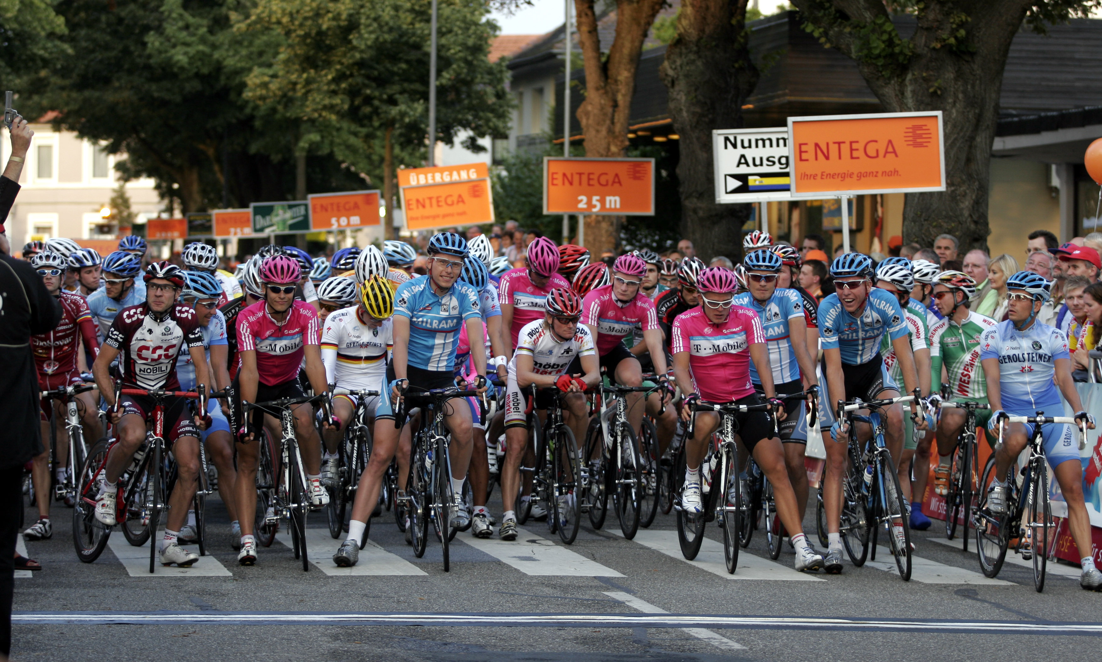 Start of the Entega Grand Prix 2007 in Lorsch (Hesse, Germany). On this picture: Jens Voigt, Linus Gerdemann, Fabian Wegmann, Bruno Risi and many more.